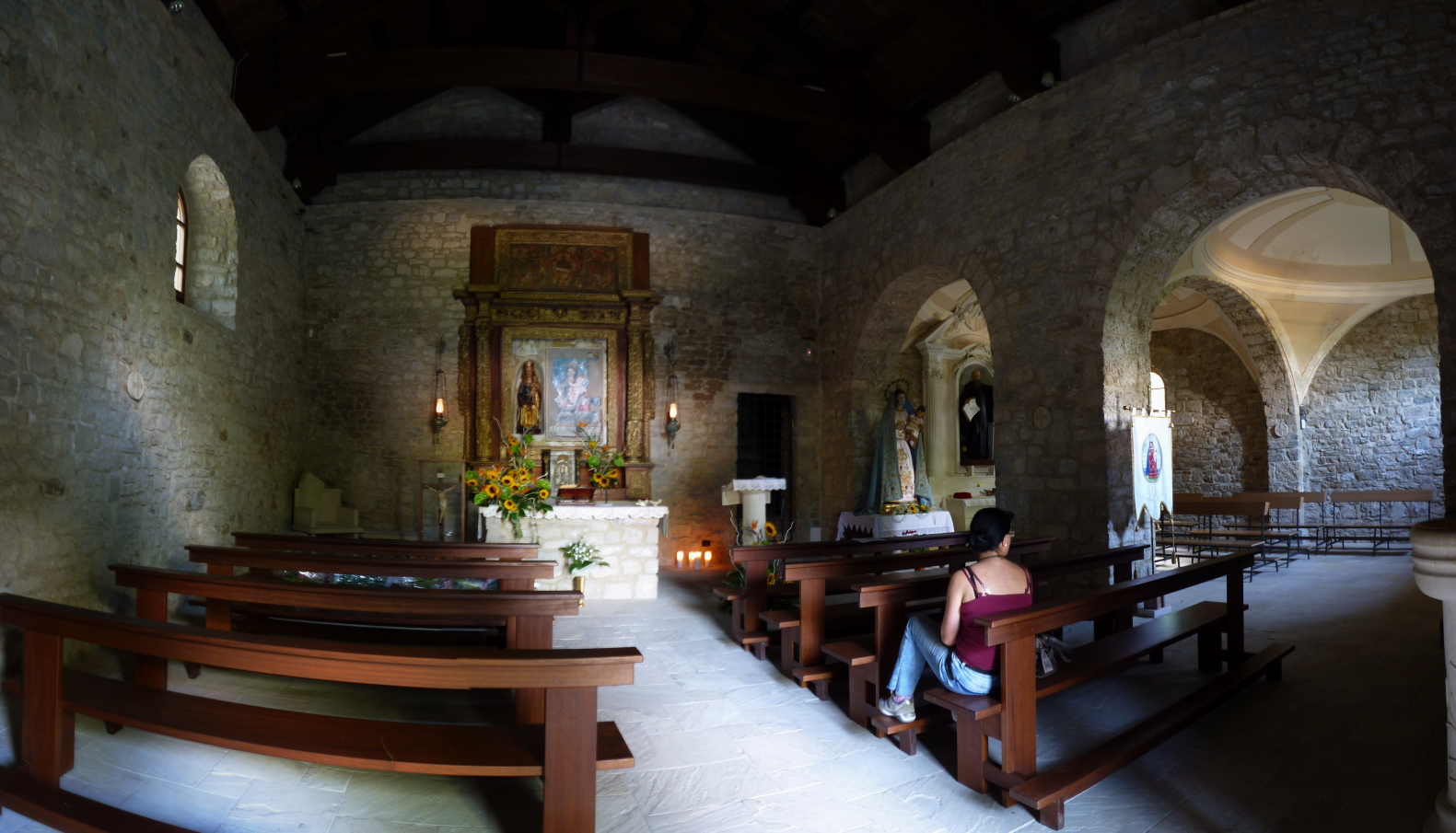 The sanctuary of Santa Maria Mater Domini in Fraine, in the province of Chieti, Abruzzo